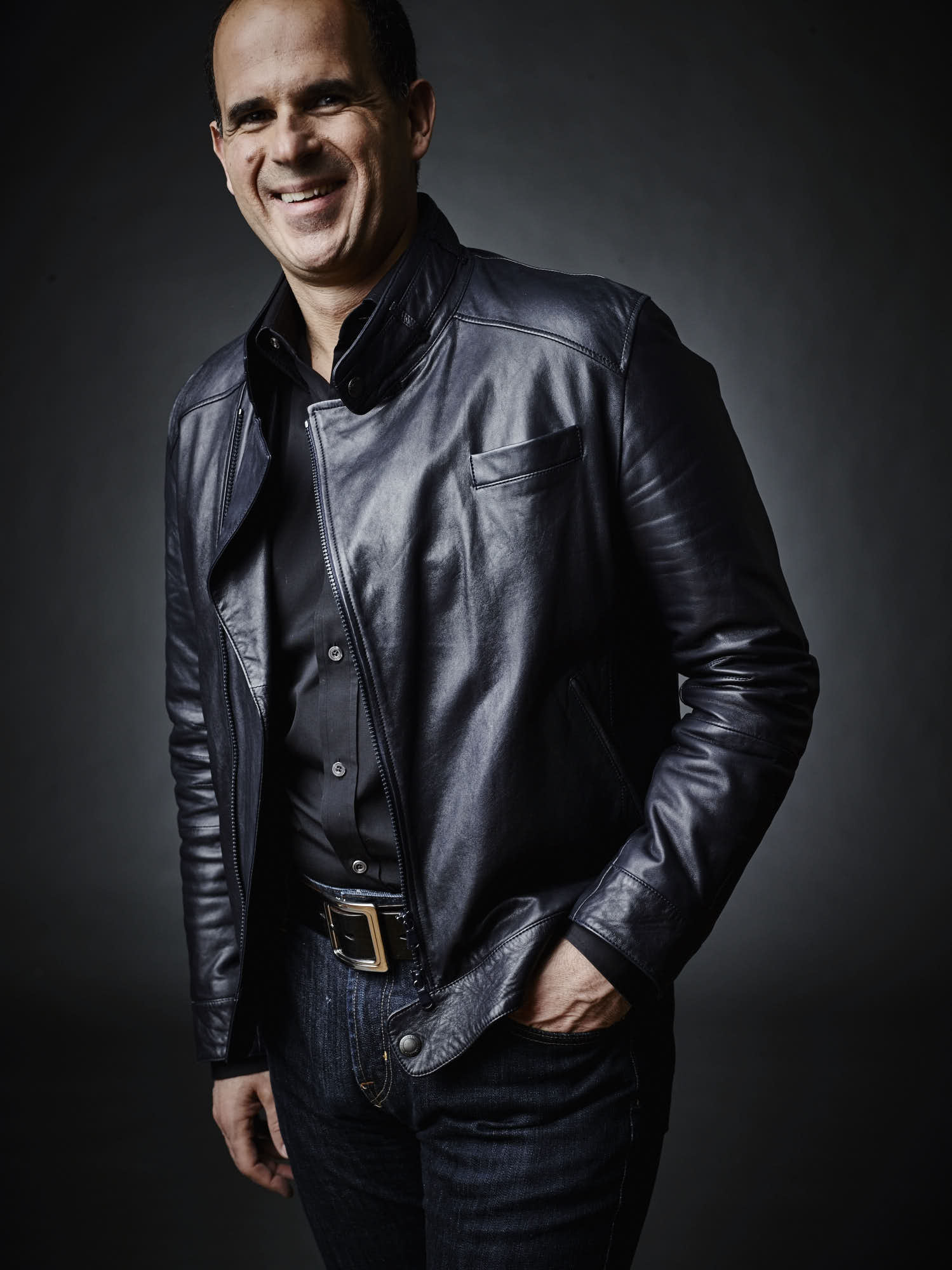 Marcus Lemonis